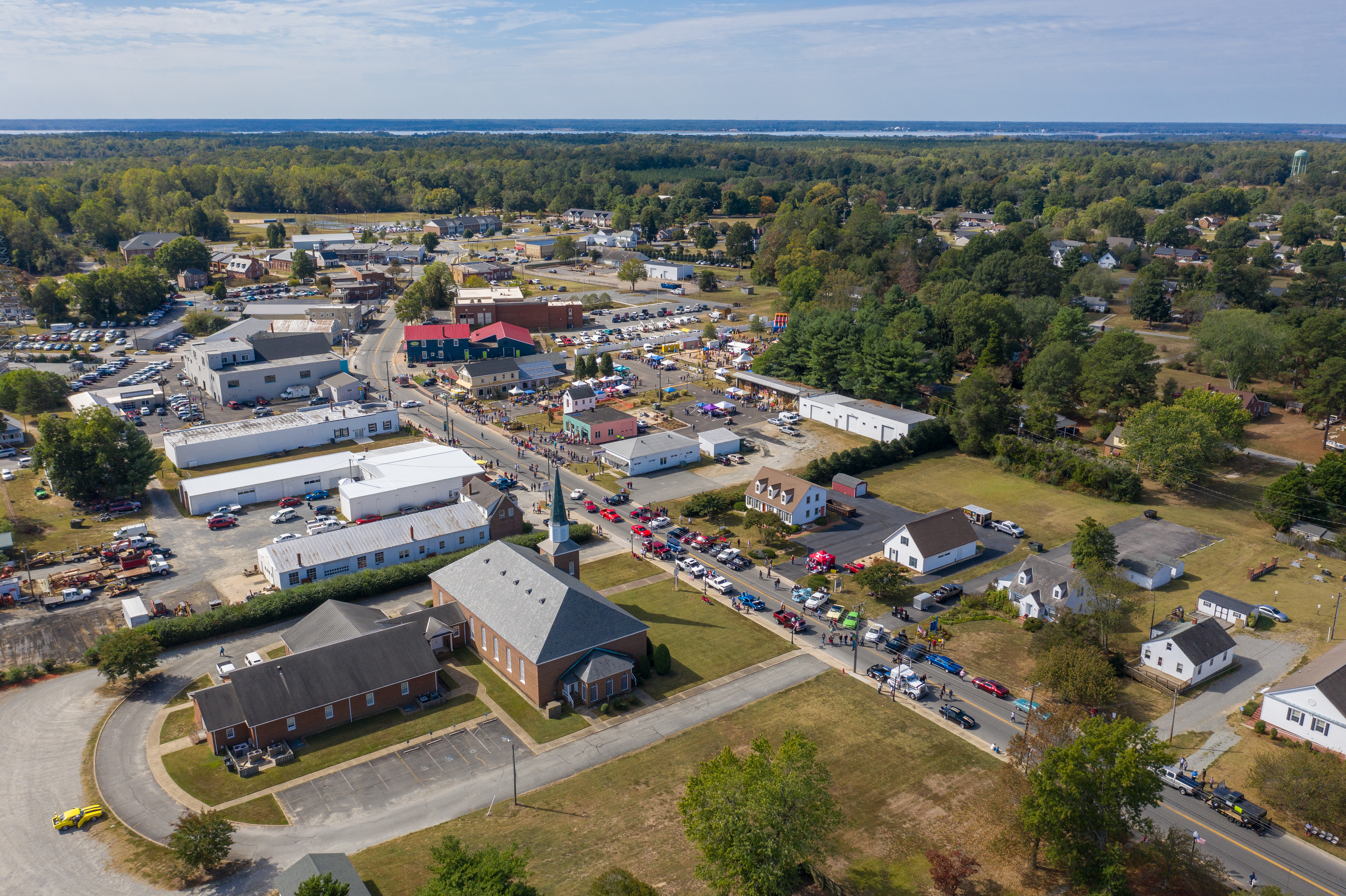 Aerial of Downtown Warsaw